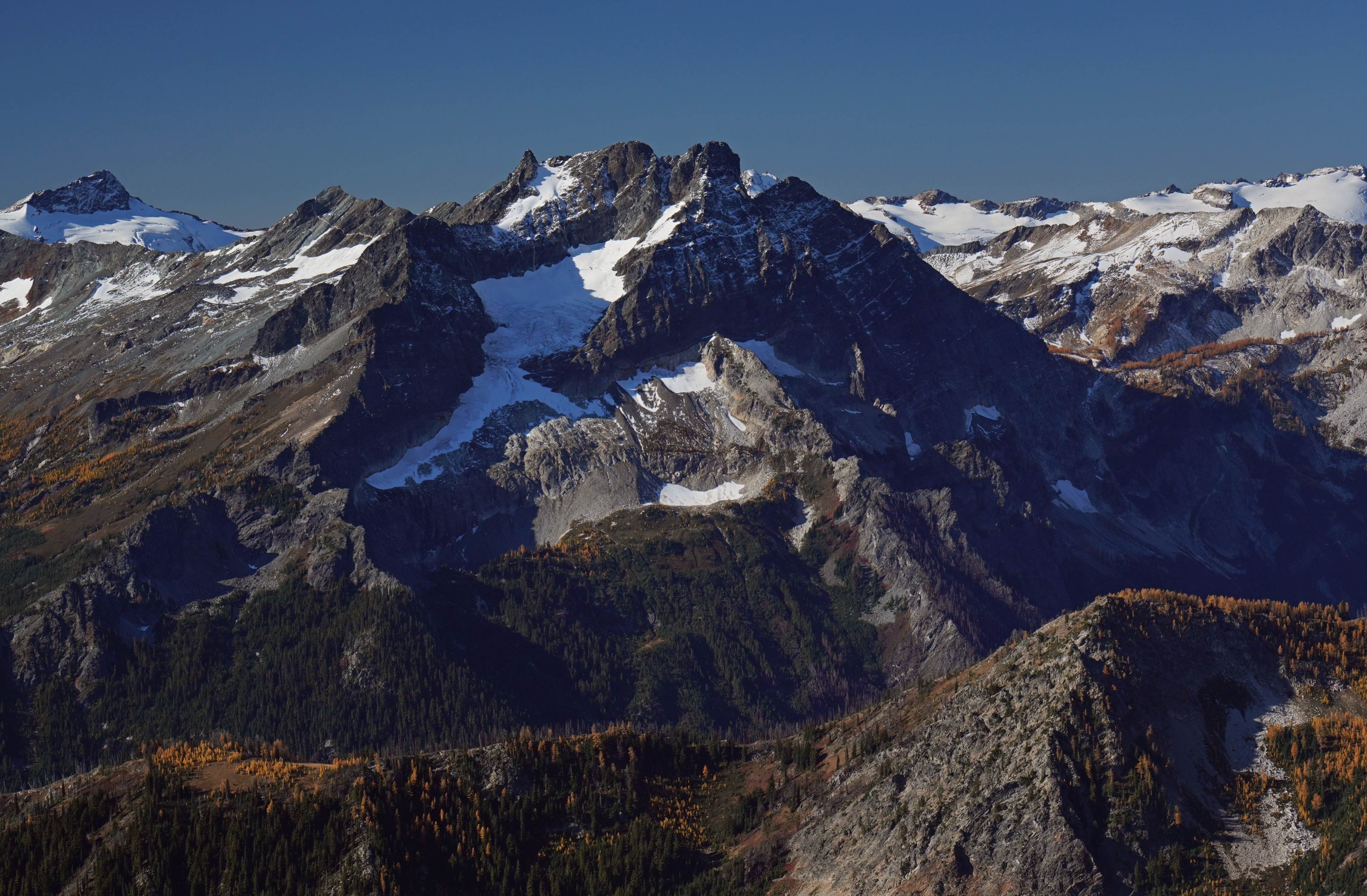 Buck Mountain seen from Mt. Maude